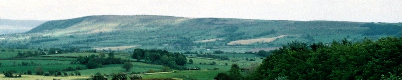 Longridge Fell, in Lancashire, England. Photographed from Beacon Fell.